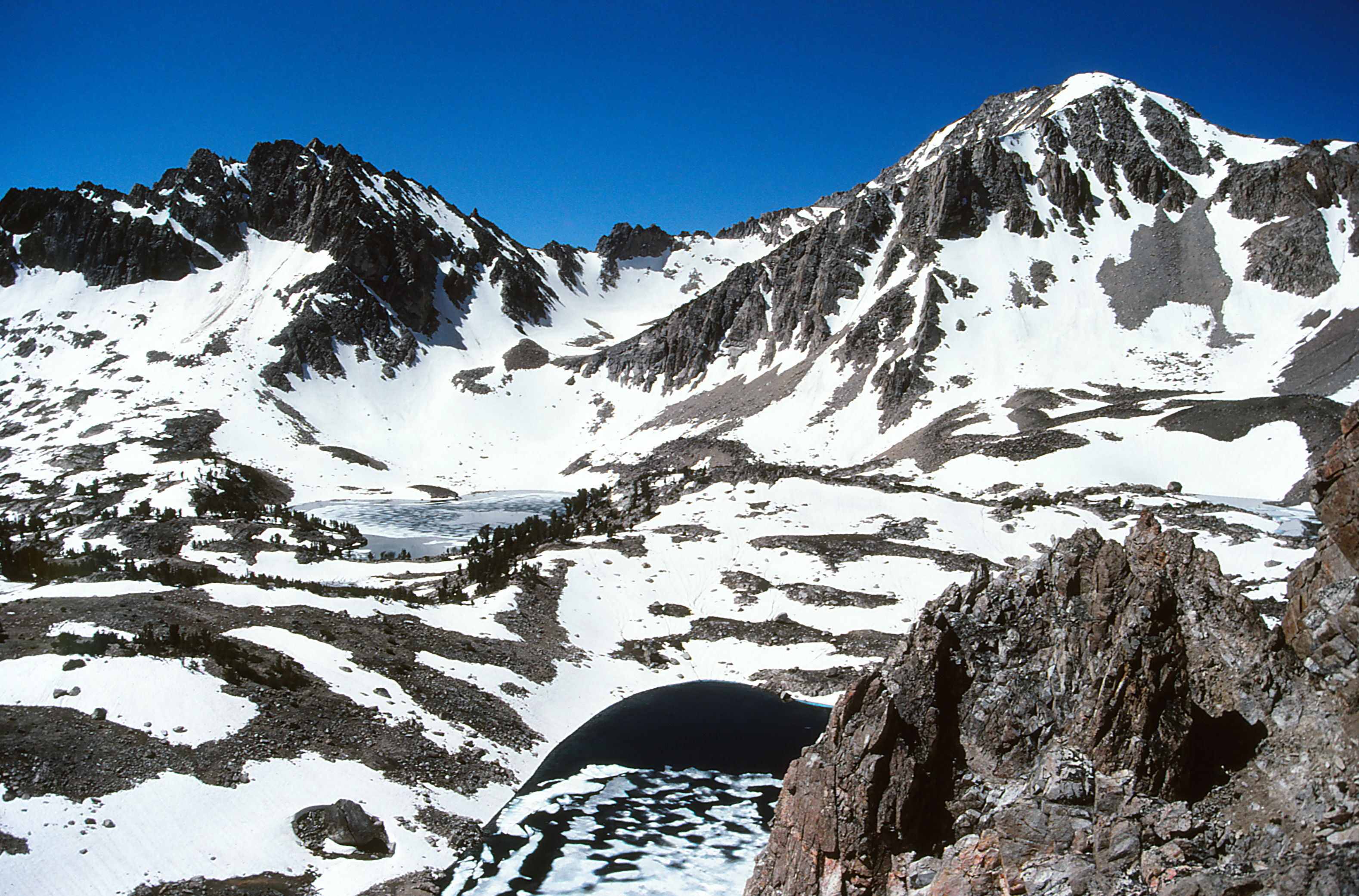 Well above treeline in the White Cloud Mountains, Idaho. These partially-frozen lakes - Gunsight Lake and Tin Cup Lake - occupy hollows on the floor of old glacial cirques. Scanned slide.